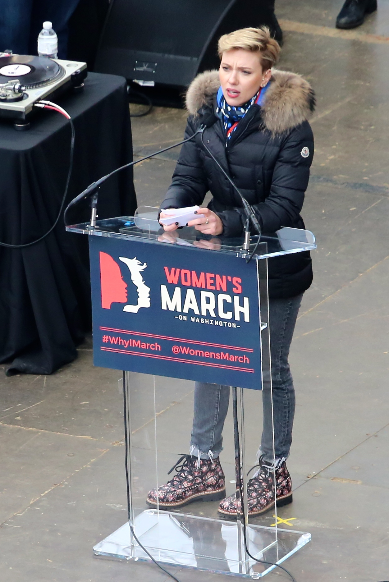 Scarlett Johansson speaks to the crowd at the Women's March on Washington.